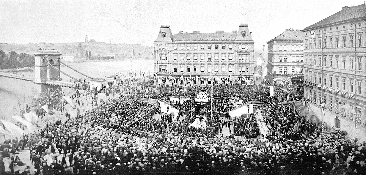 Laying down the foundation stone of National Theatre in Prague, Czech Republic, 16th May 1868.